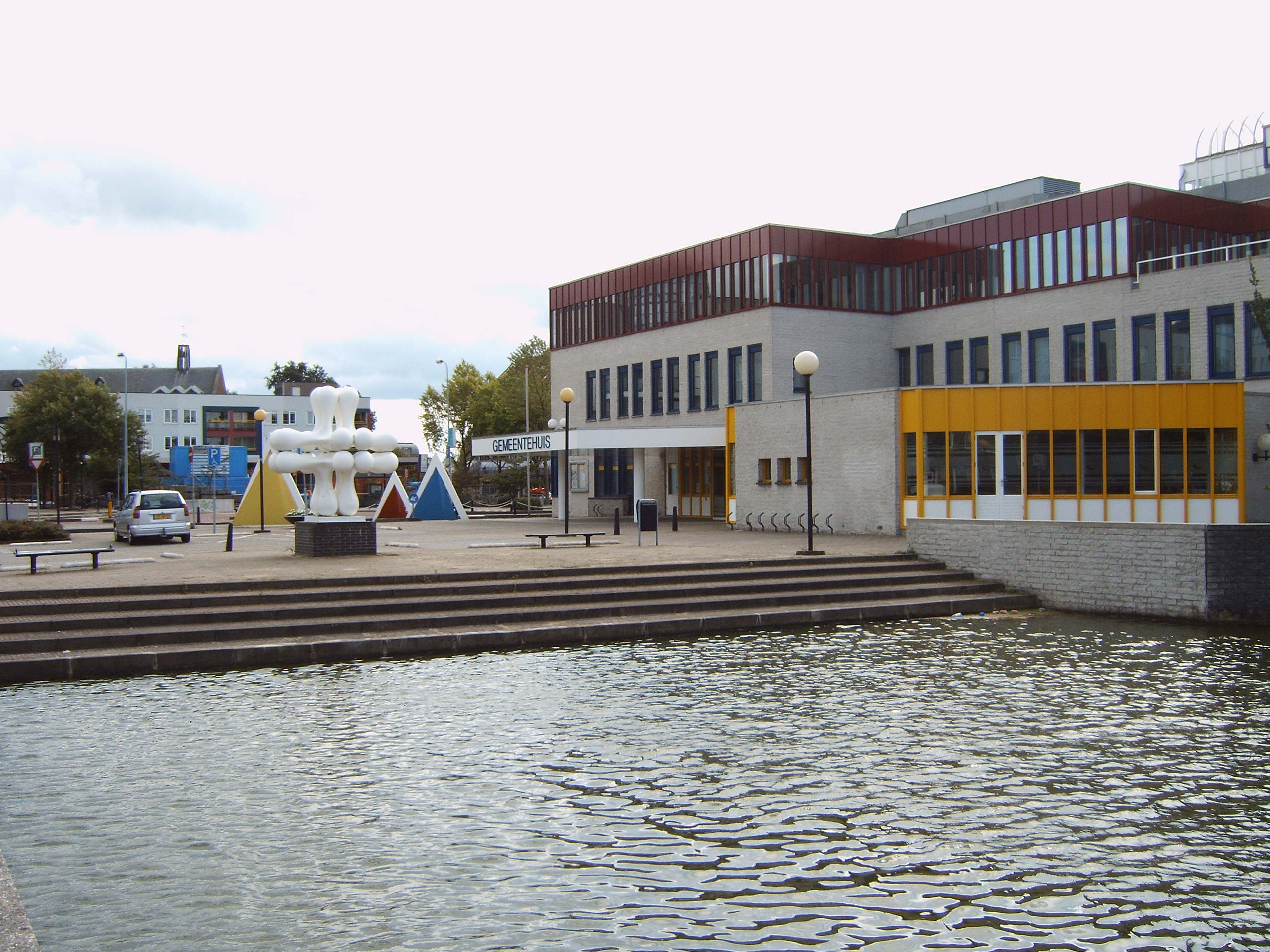 Uithoorn, the Netherlands, town hall